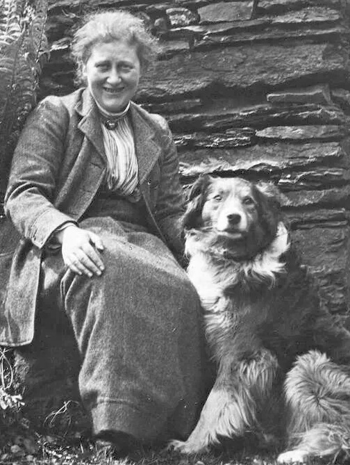 Vintage snapshot 112 mm x 87 mm